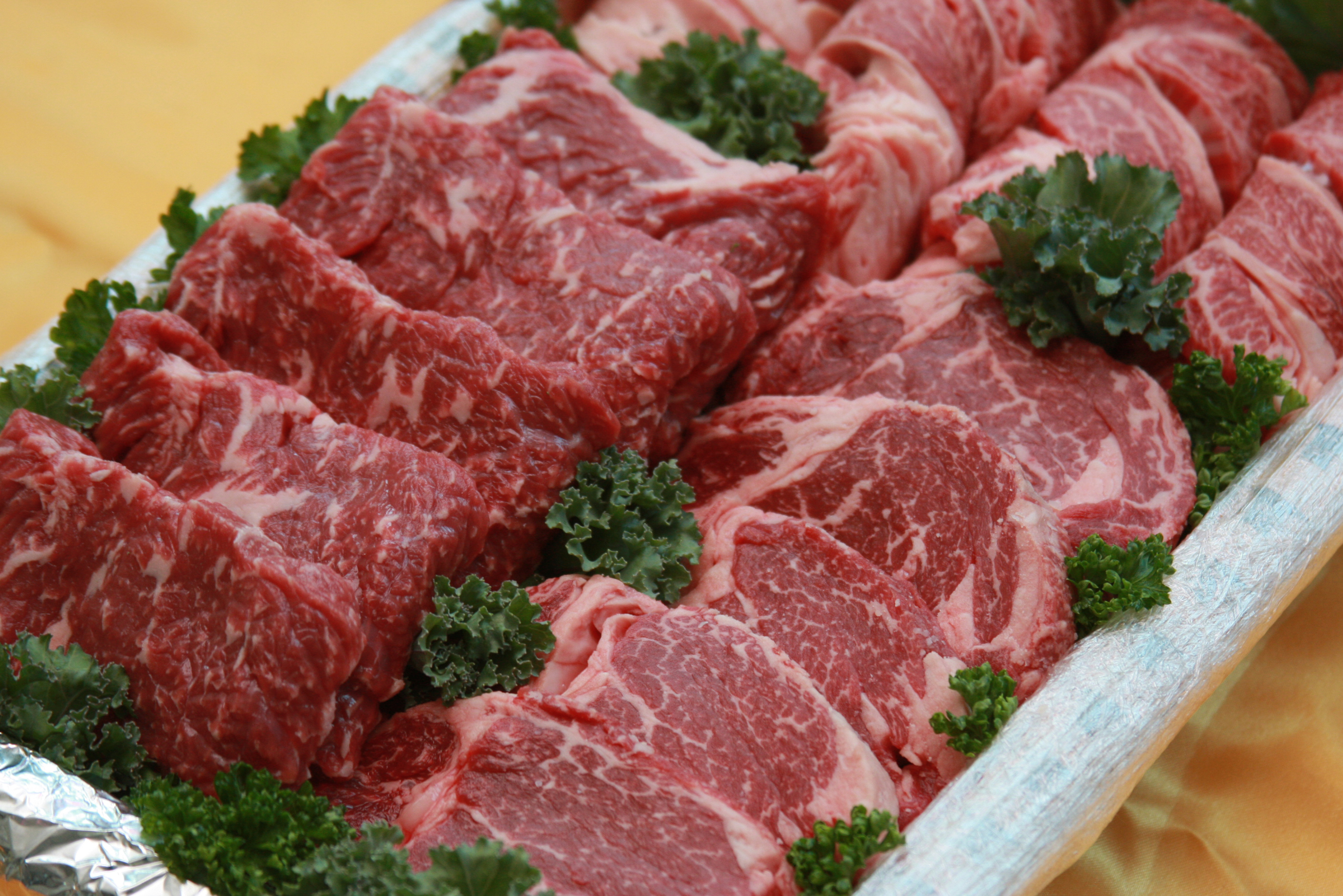 Hanwoo from Seosan